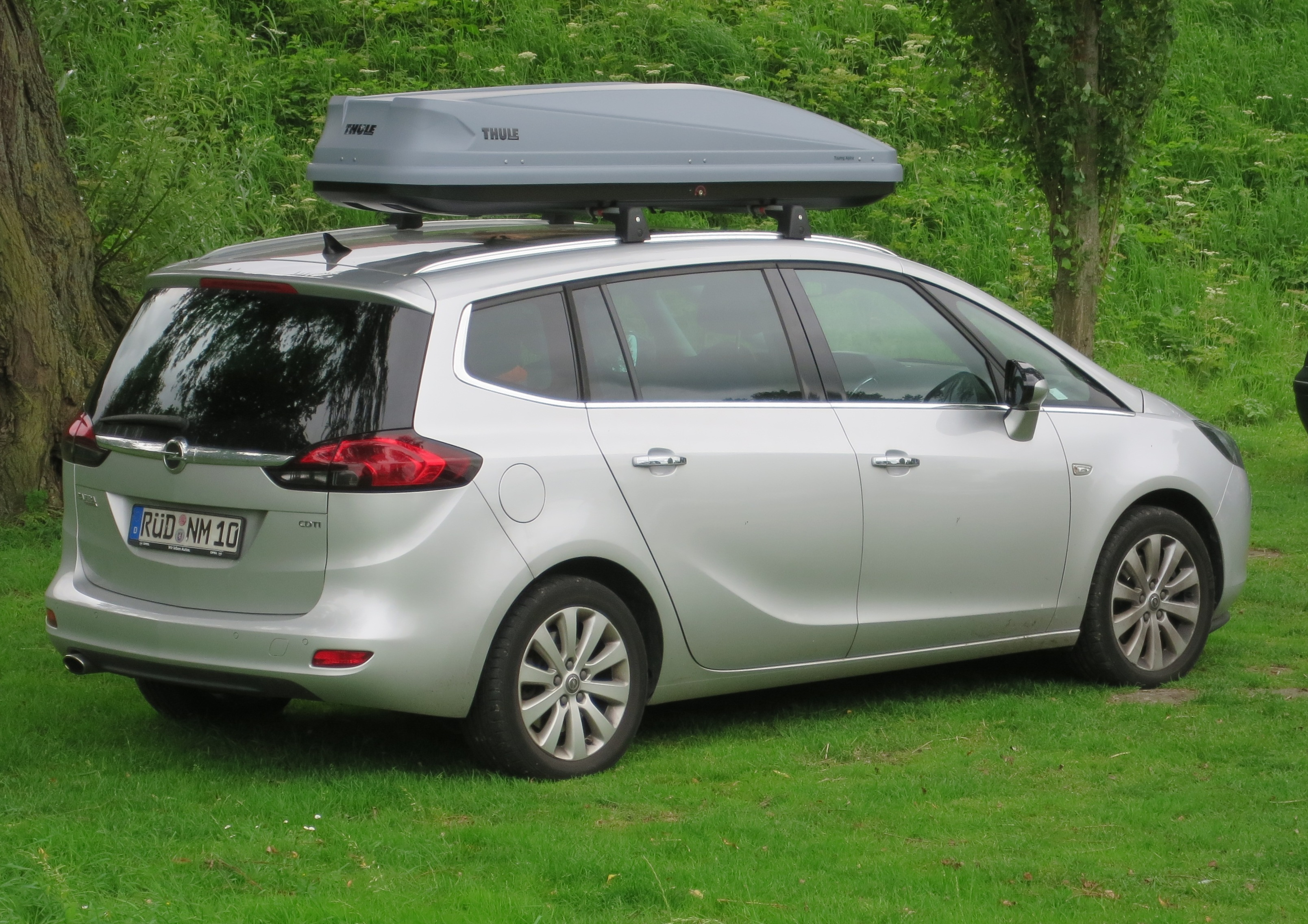 Opel Zafira C with Thule roofbox